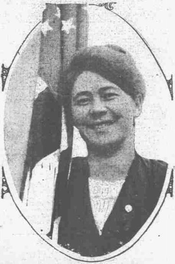 Anna "Big Annie" Klobuchar Clemenc (1888–1956), an American labor activist involved in the Copper Country Strike of 1913–1914 and who organized the Christmas party at which the Italian Hall disaster occurred. The image is from a 1914 newspaper publication. Her name is pronounced "Clements", so it has often been misspelled as "Clements", "Clemens", "Clemence", or "Clemenec".